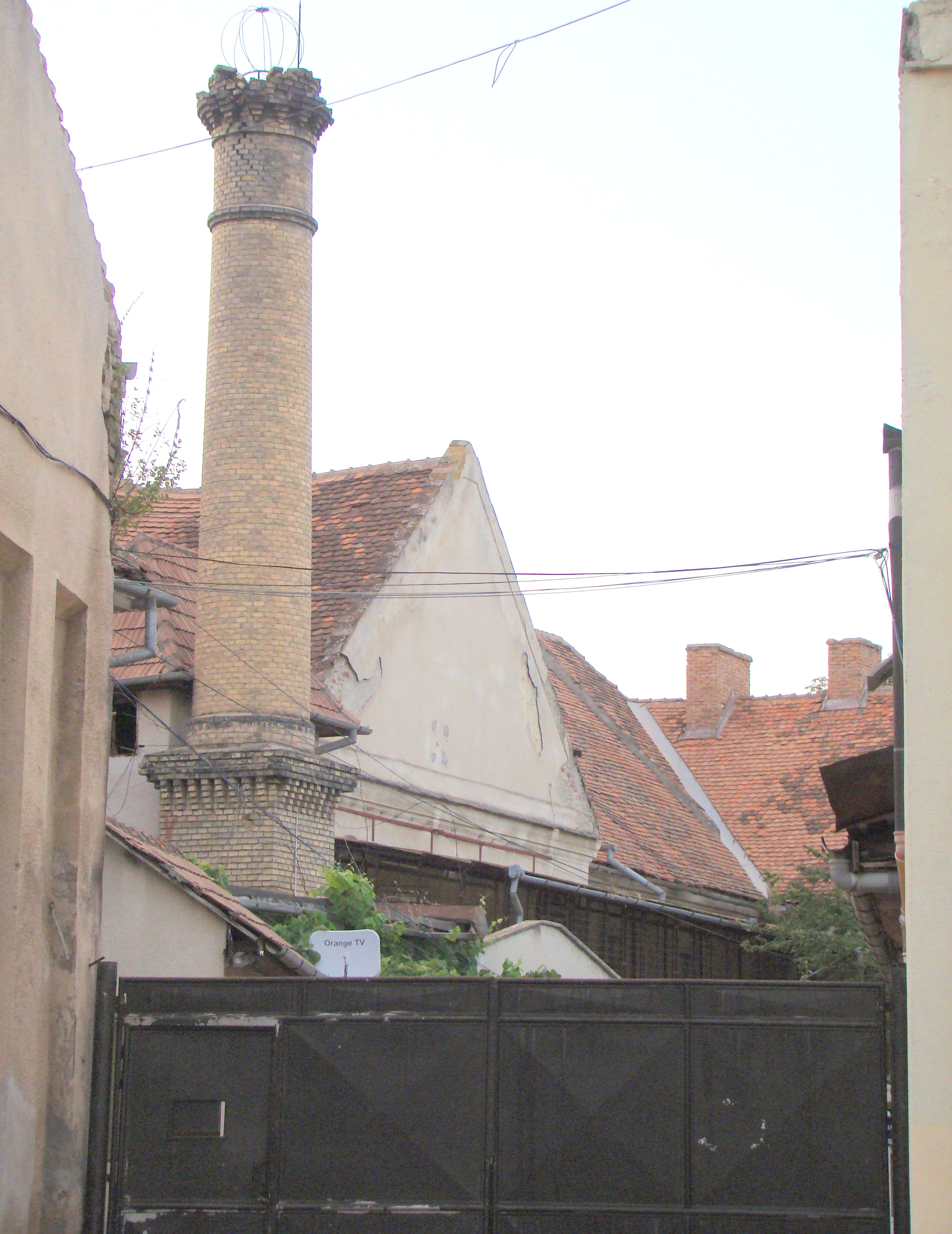 House, historic monument, Unirii street number 5, Alba Iulia, Alba county, Romania